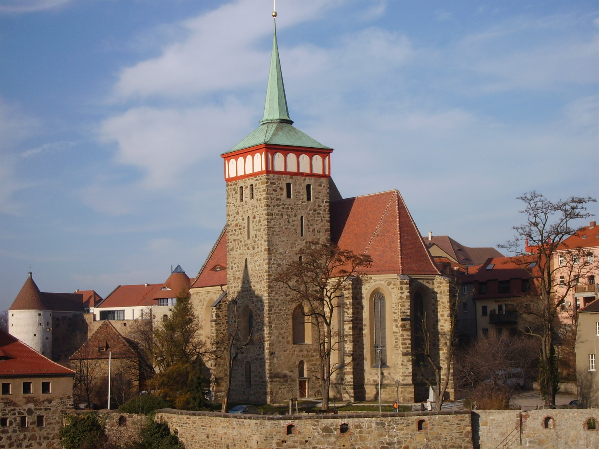 St. Michael's Church in Bautzen.